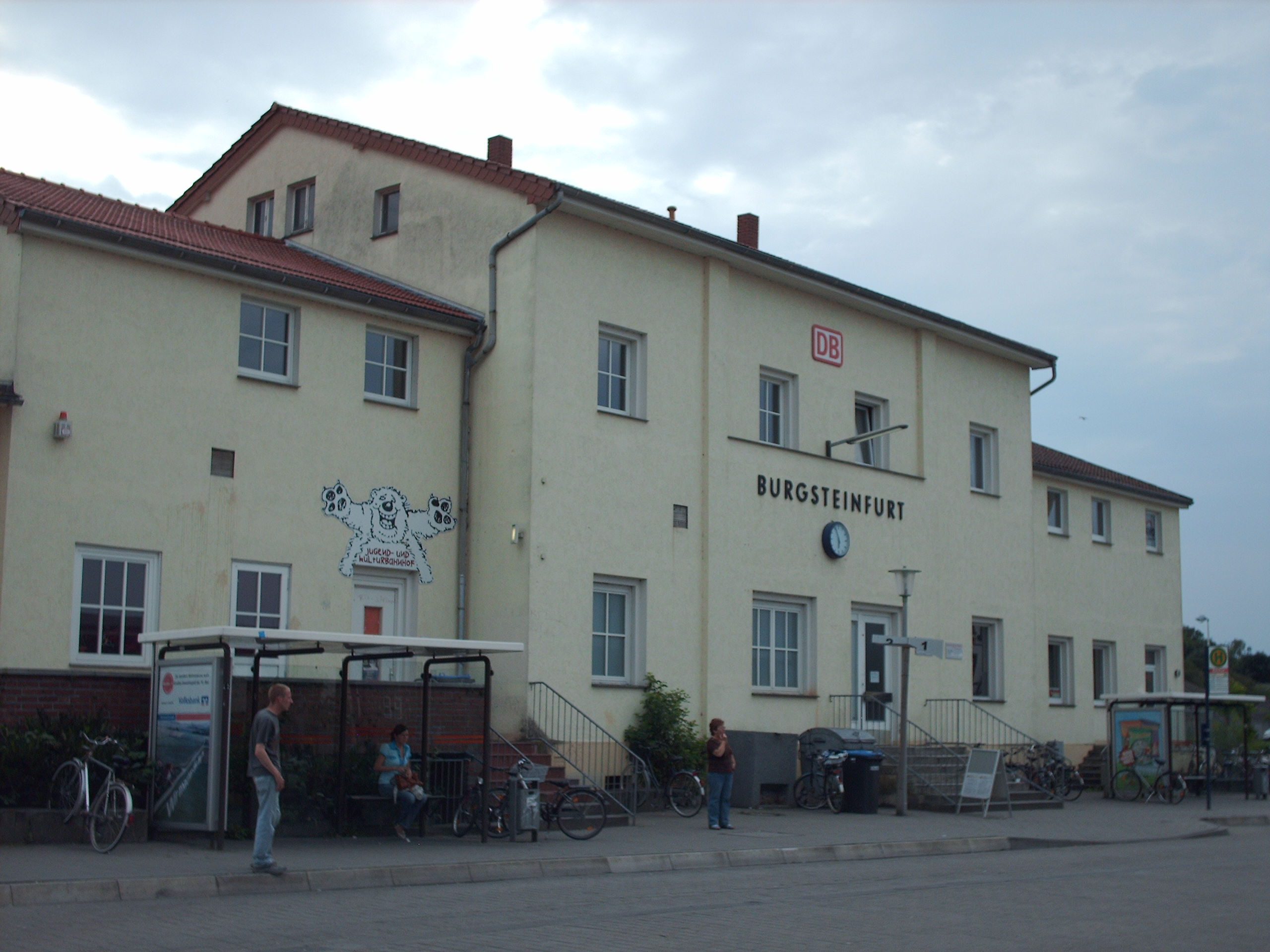 Steinfurt-Burgsteinfurt station, Steinfurt, Germany check usage